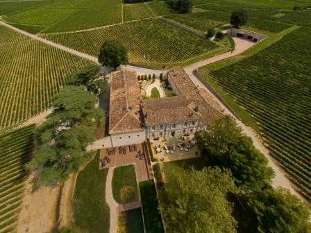 Chateau Franc Mayne